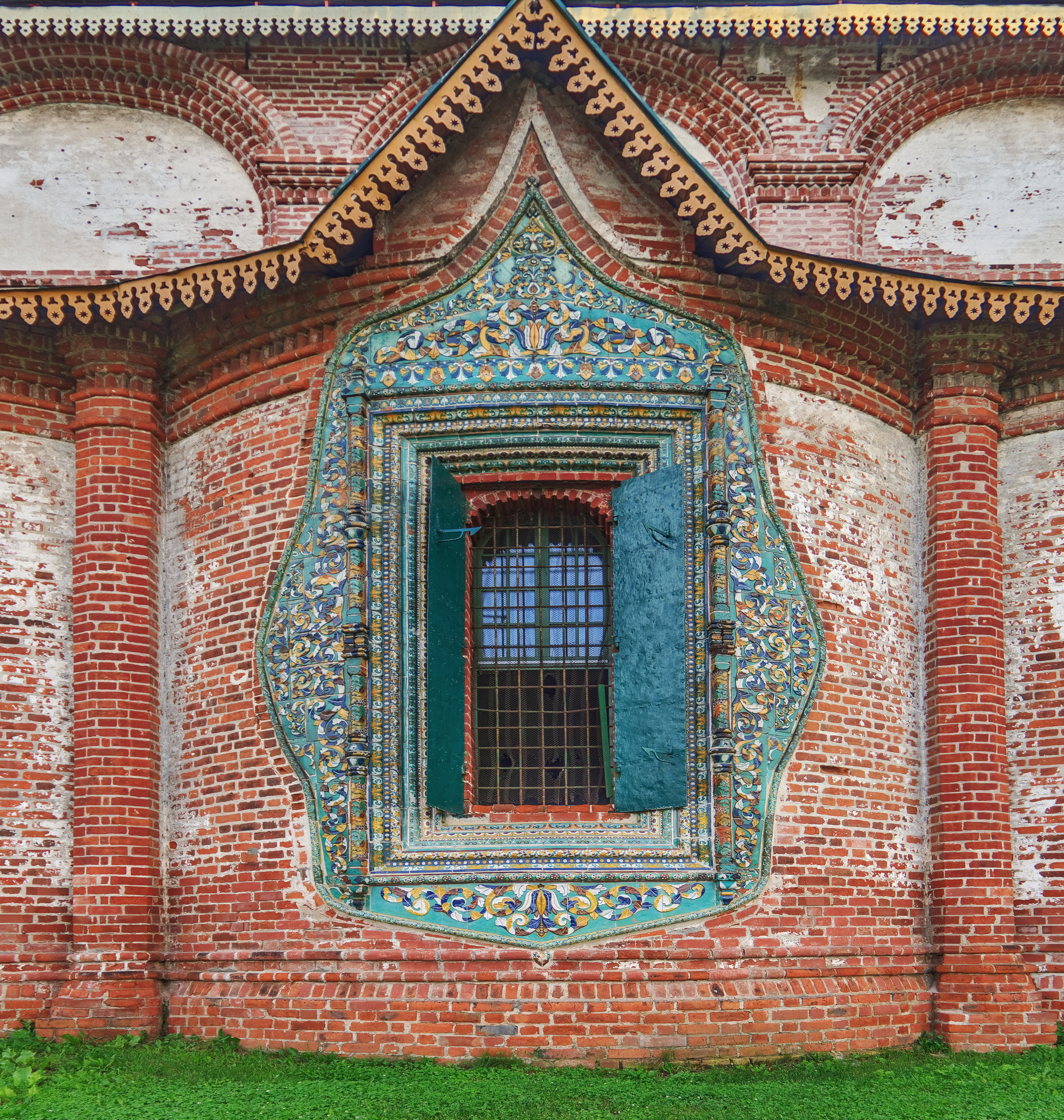 Saint John Chrysostom Church, Yaroslavl, Russia